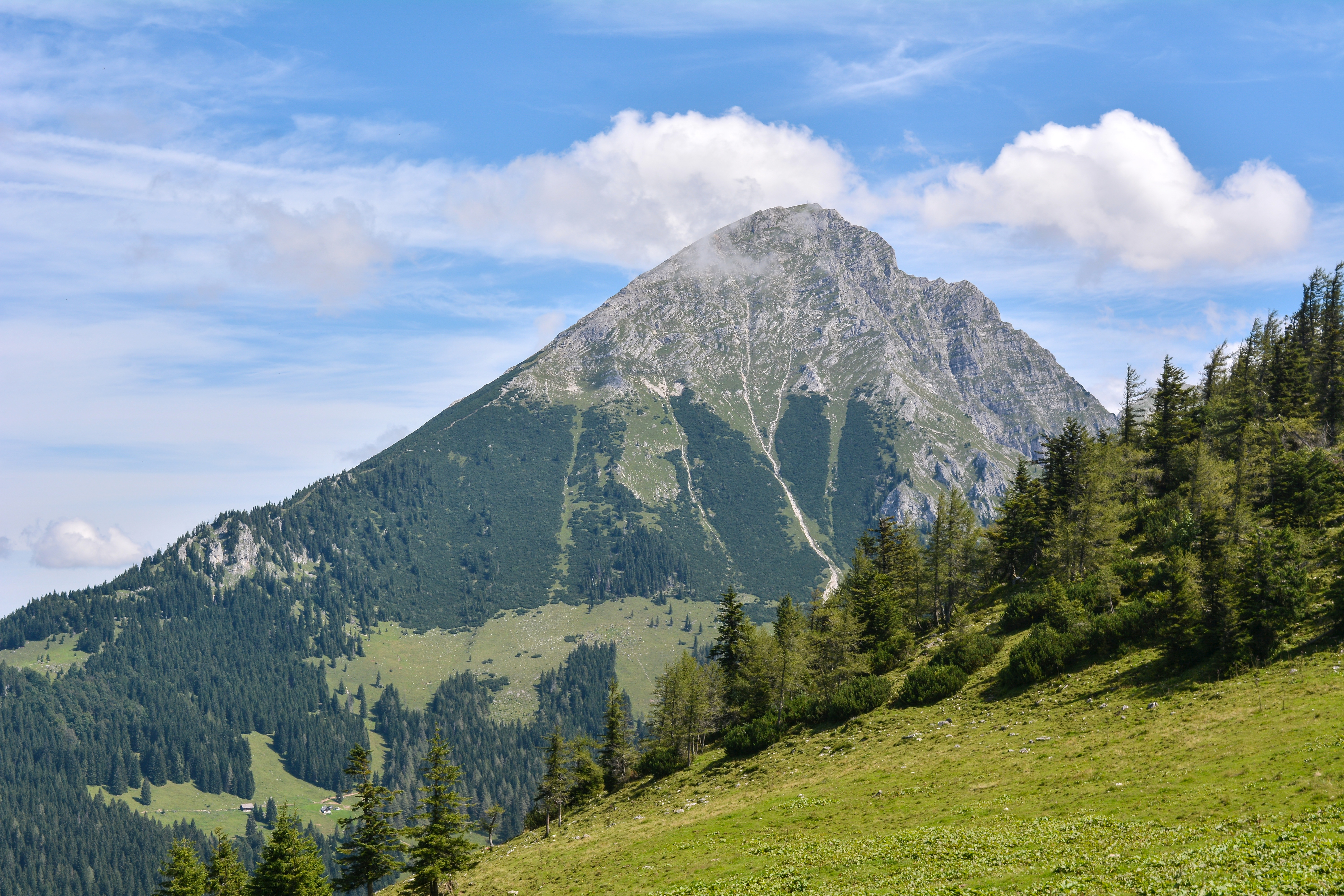 Großer Pyhrgas (2244 m) is a summit of the Haller Mauern at the border between Upper Austria and Styria